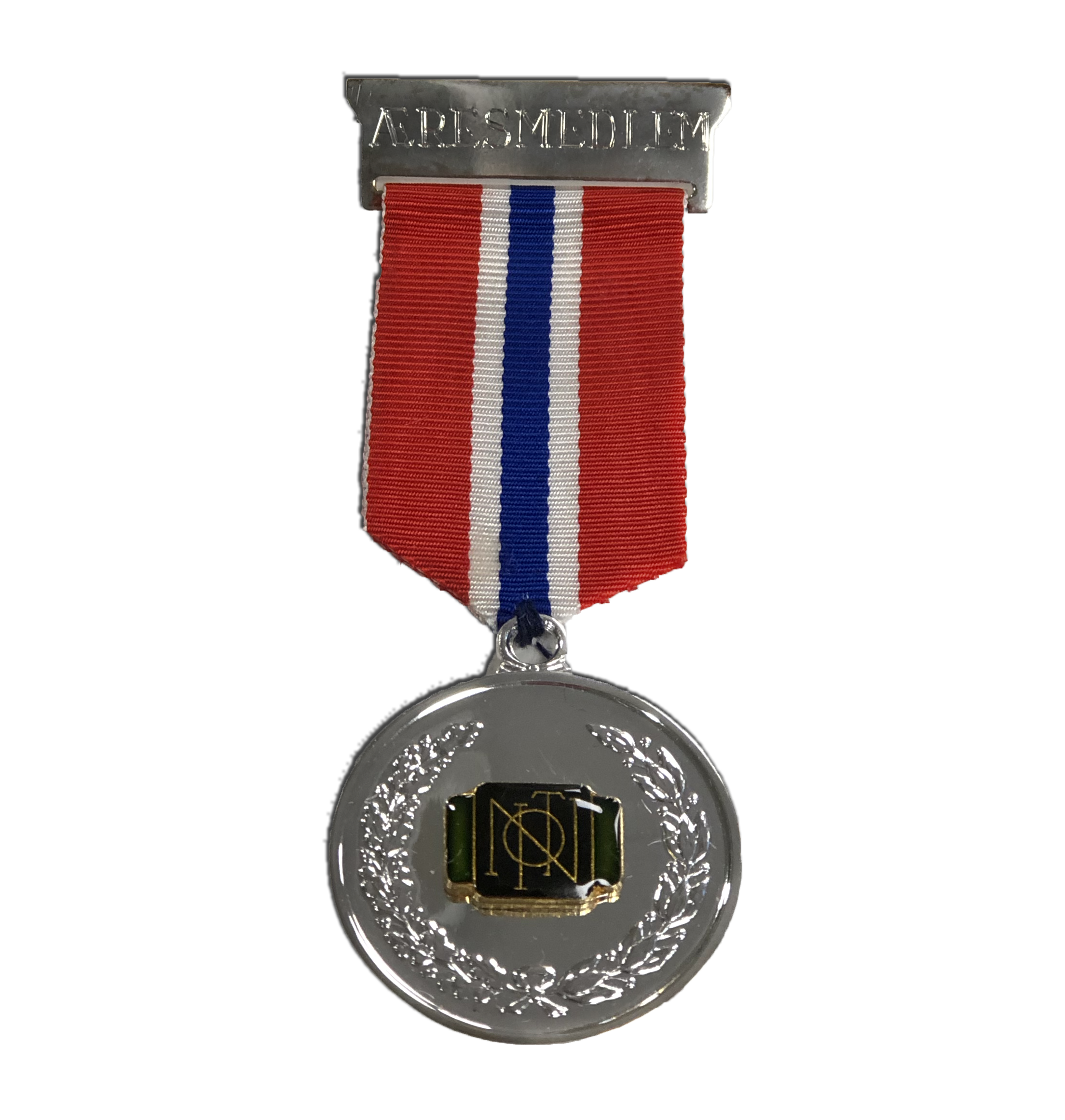 Æresmedalje som utdeles til NITOs æresmedlemmer.